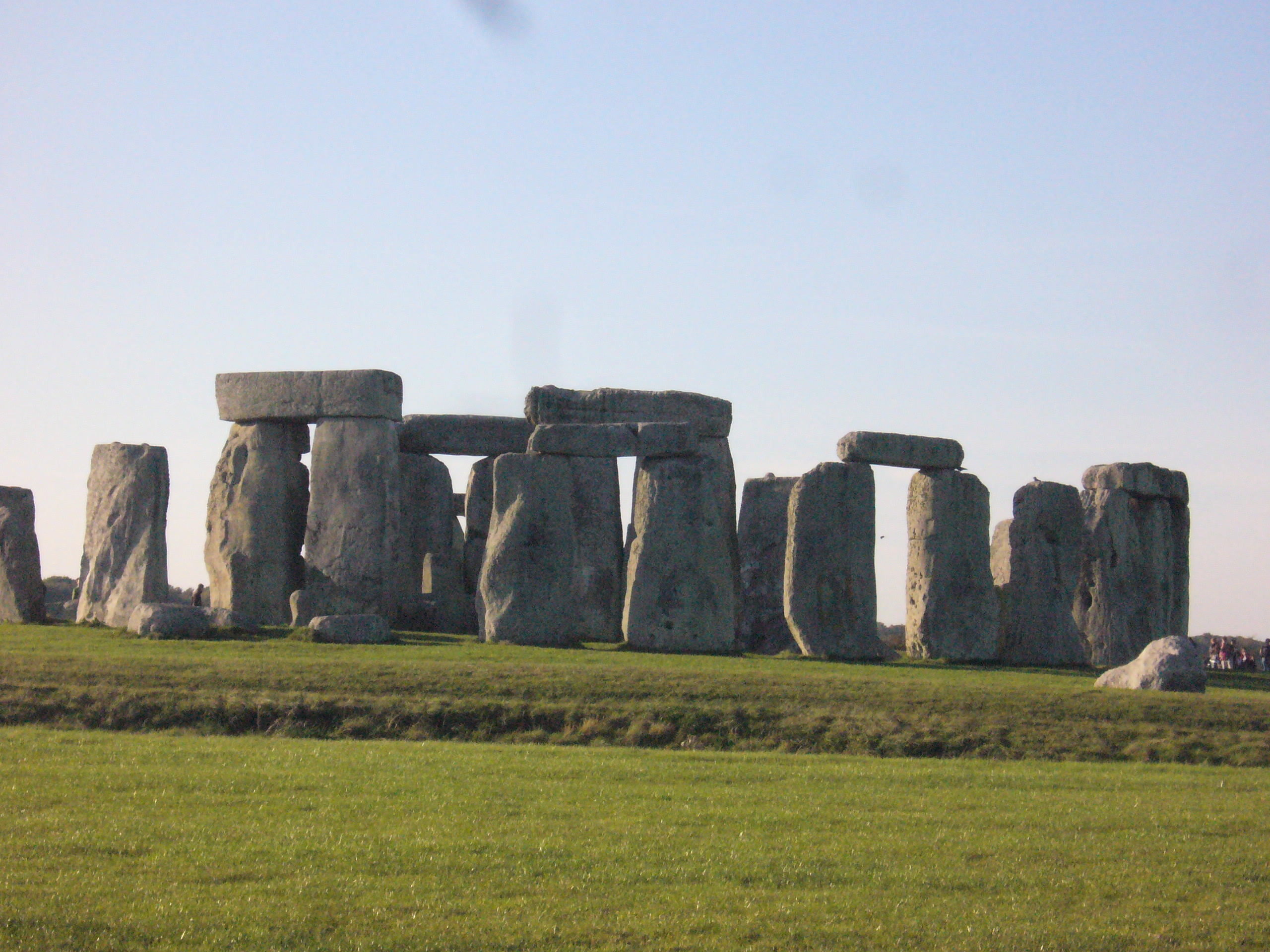 A picture of Stonehenge with the sun just starting to set in the background.